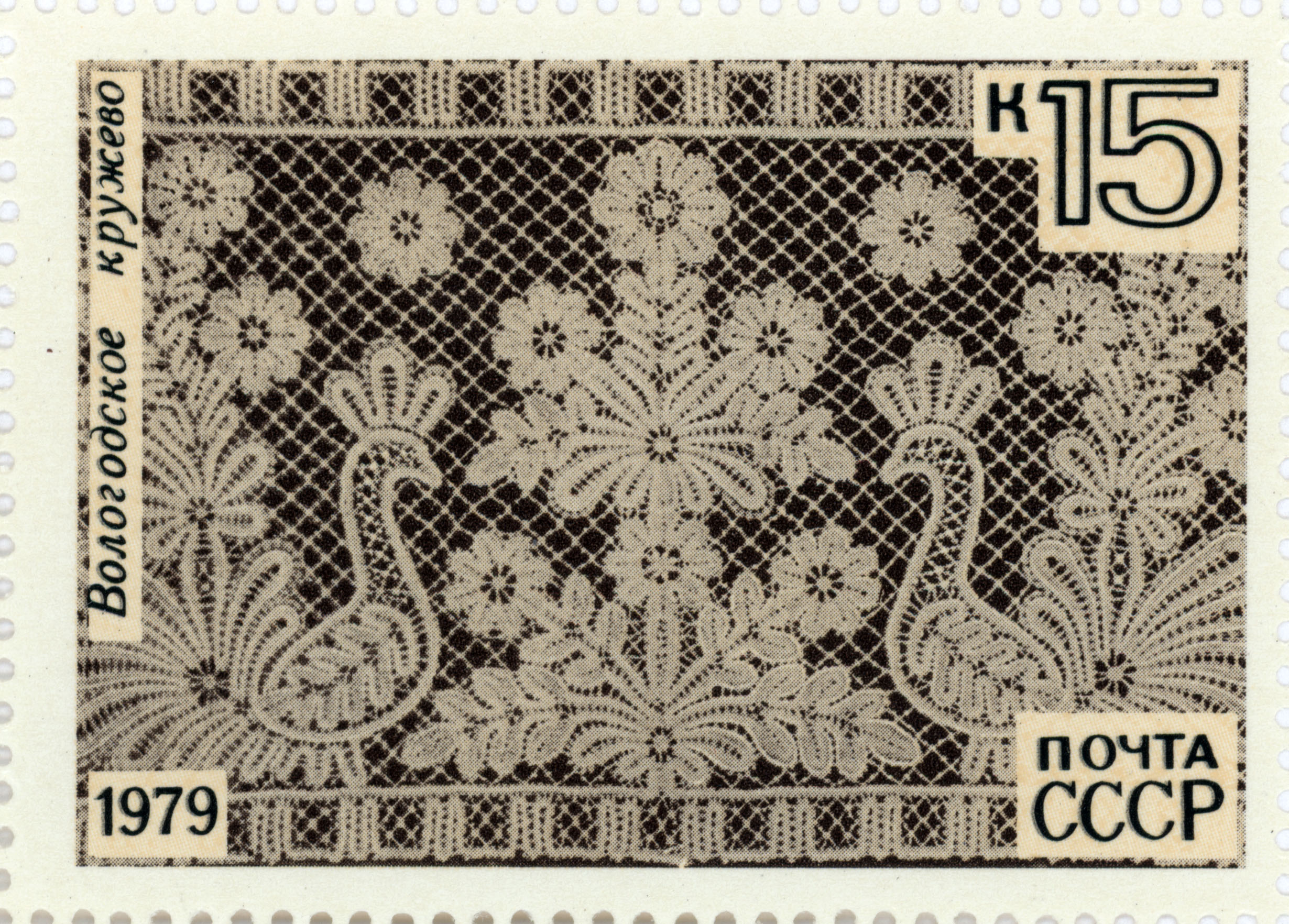 A USSR stamp depicting traditional Russian lace art from Vologda